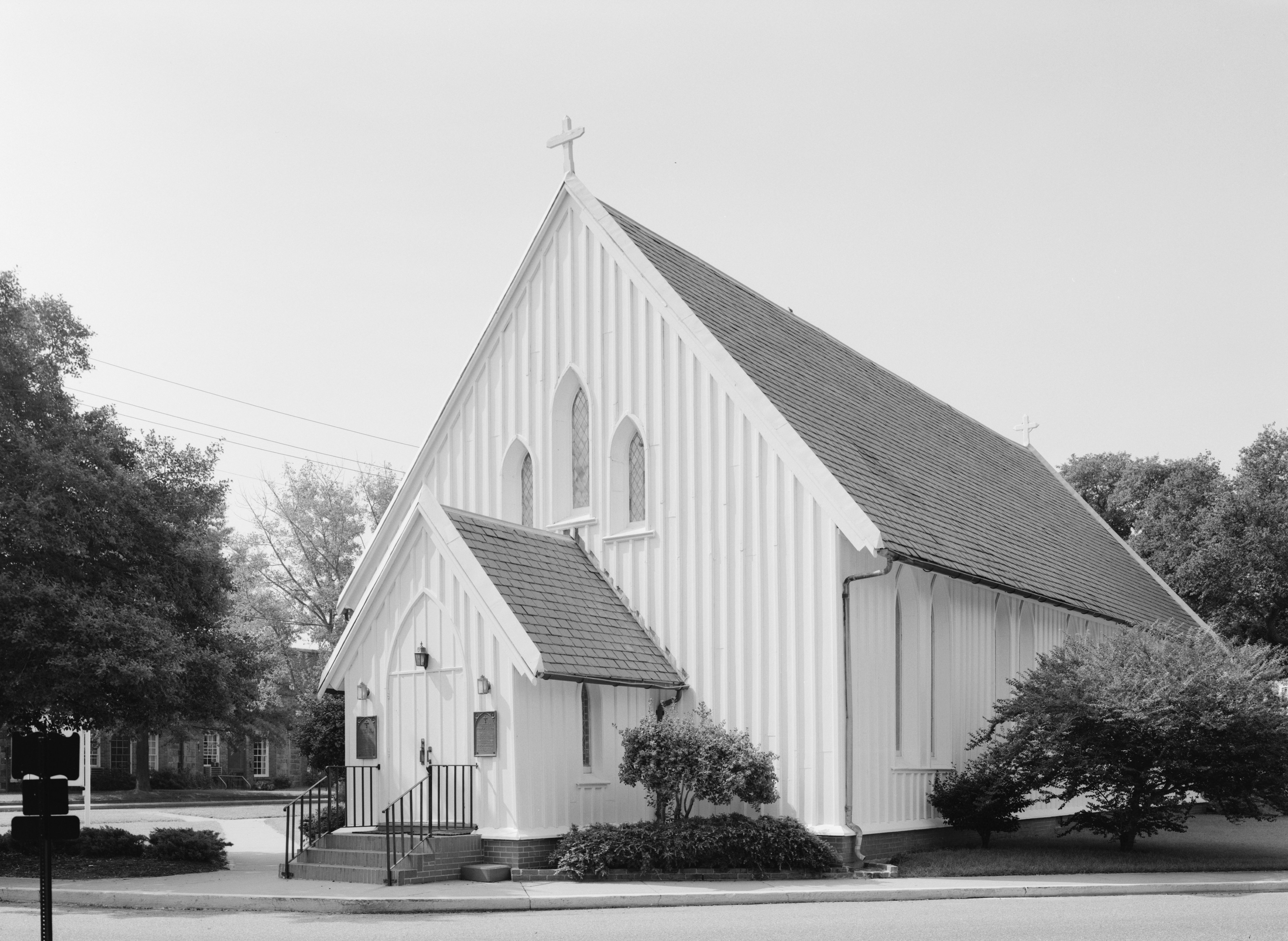 EAST (FRONT) ELEVATION - Fort Monroe, Chapel of the Centurion, Off Ruckman Road, Hampton, Hampton, VA